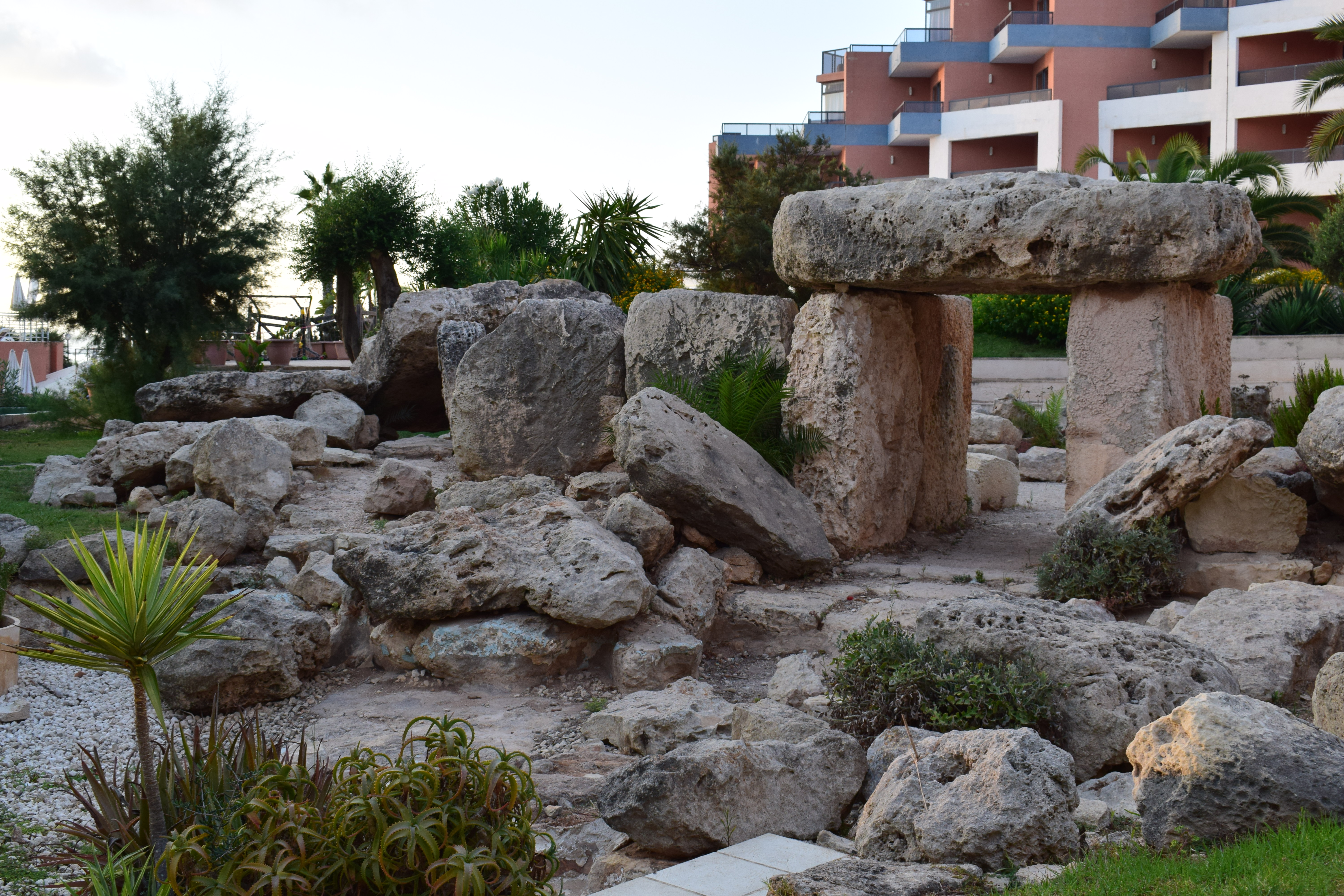 Bugibba Temple This media is about Maltese cultural property with inventory number 00056.